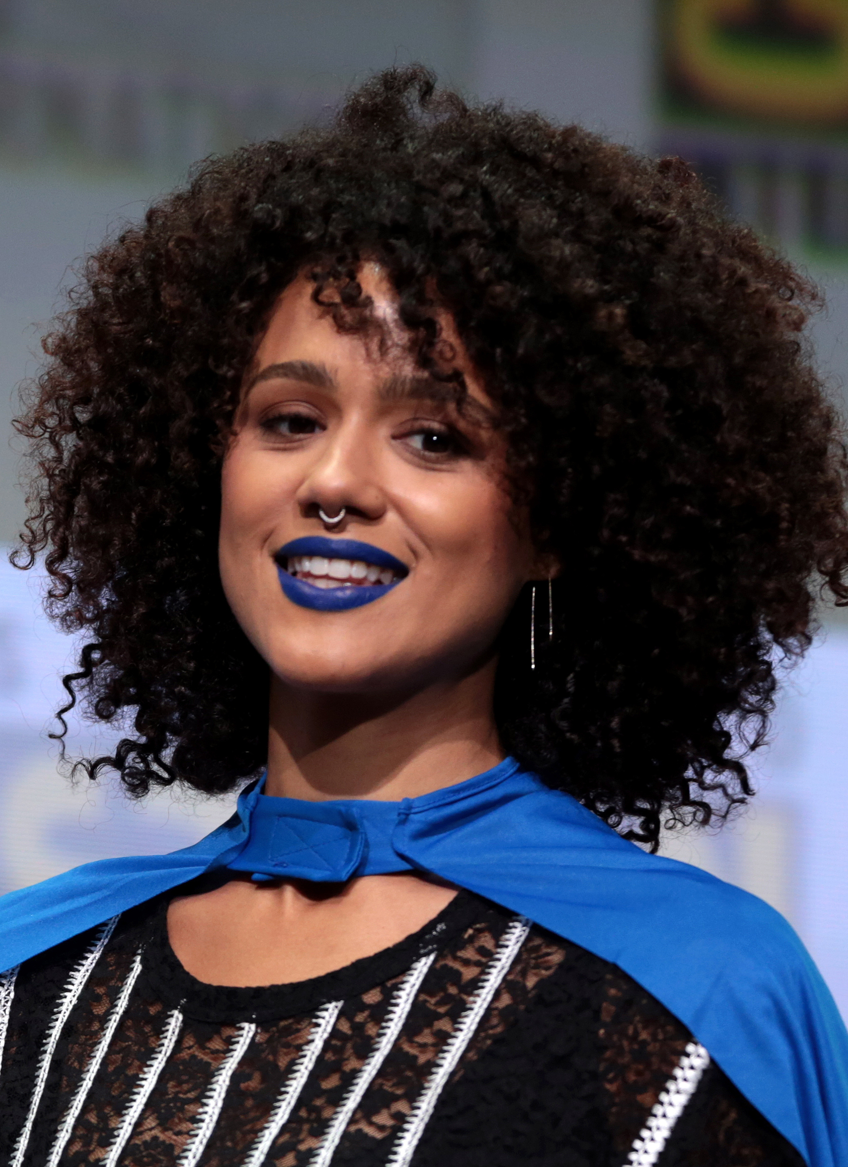 Nathalie Emmanuel speaking at the 2017 San Diego Comic-Con International in San Diego, California.